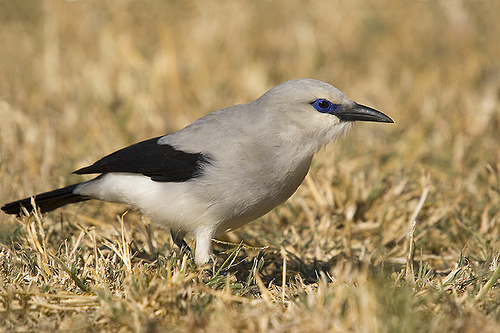 A Stresemann's Bush Crow (also known as Abyssinian Pie, Bush Crow) at Yabello Wildlife Sanctuary, Ethiopia.